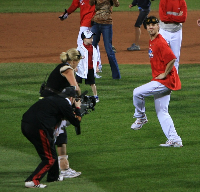 Jonathan Papelbon dancing in the middle of the Fenway Park diamond after the Boston Red Sox clinched the American League title in 2007